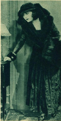 Pola Negri, in "Bella Donna", from a 1923 publication.